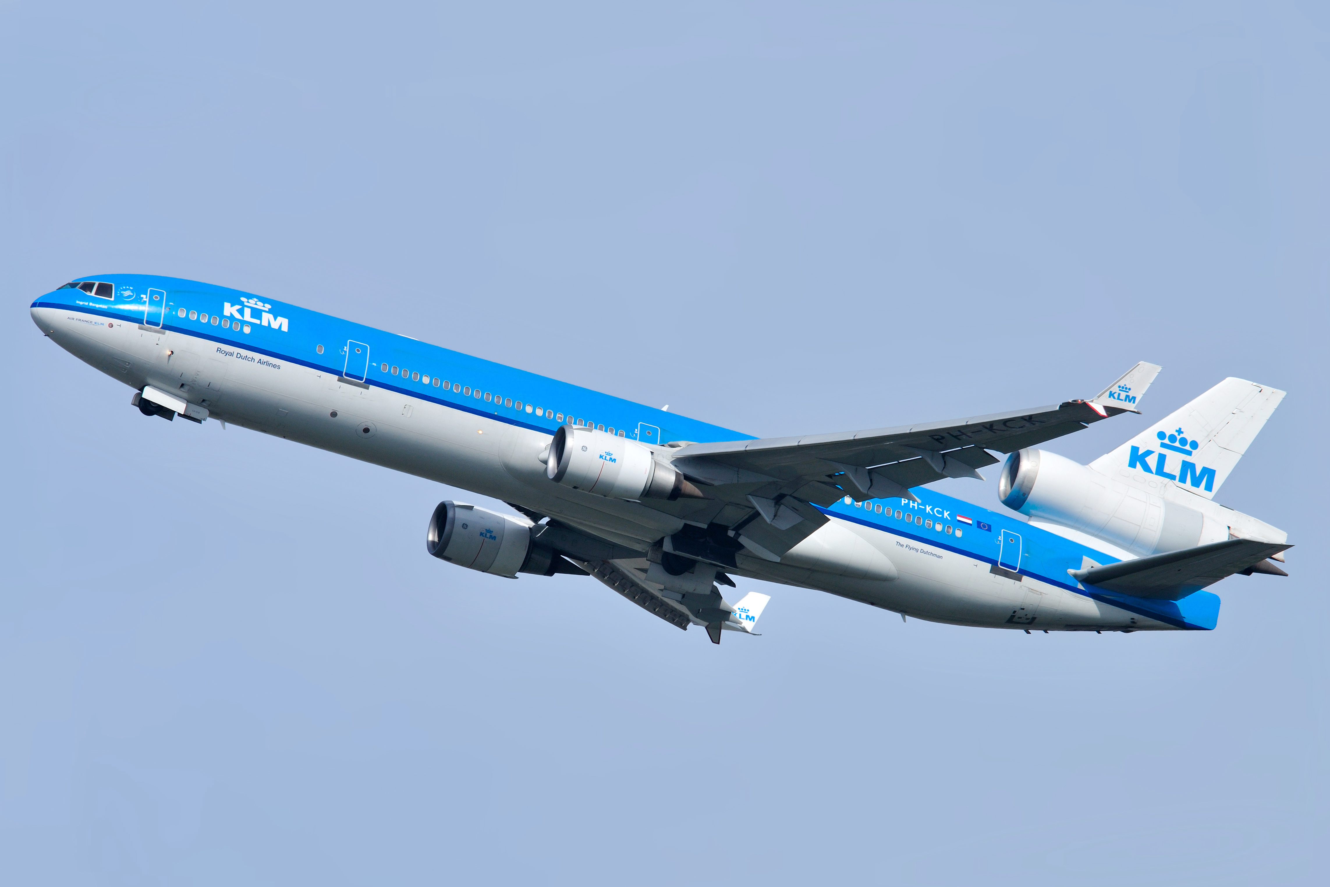 KLM PH-KCK leaving Schiphol Airport from the Kaagbaan. AMS/EHAM